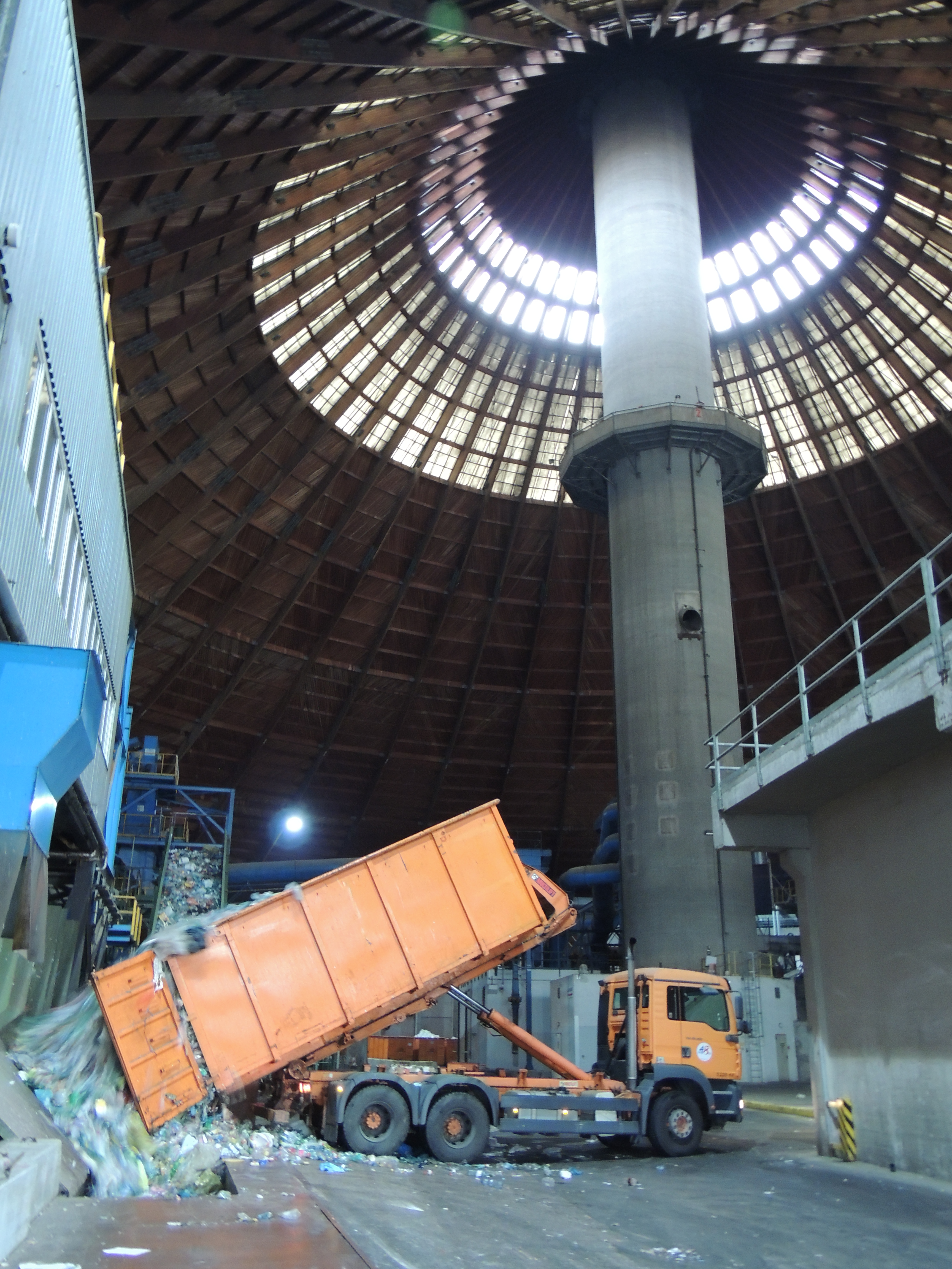 inside Rinterzelt, Sep. 2017